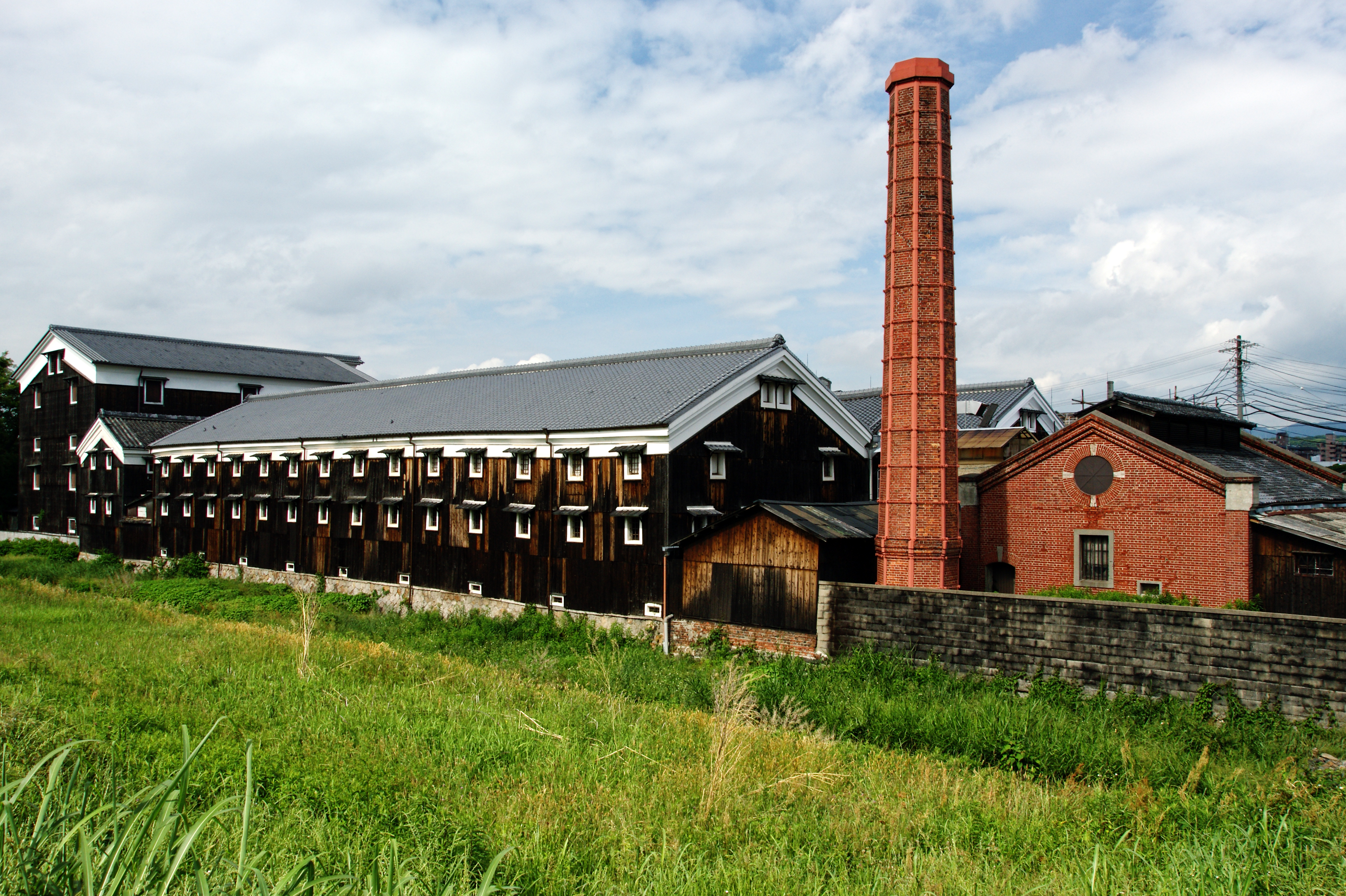 Matsumoto Sake Brewing in Fushimi, Kyoto, Kyoto prefecture, Japan